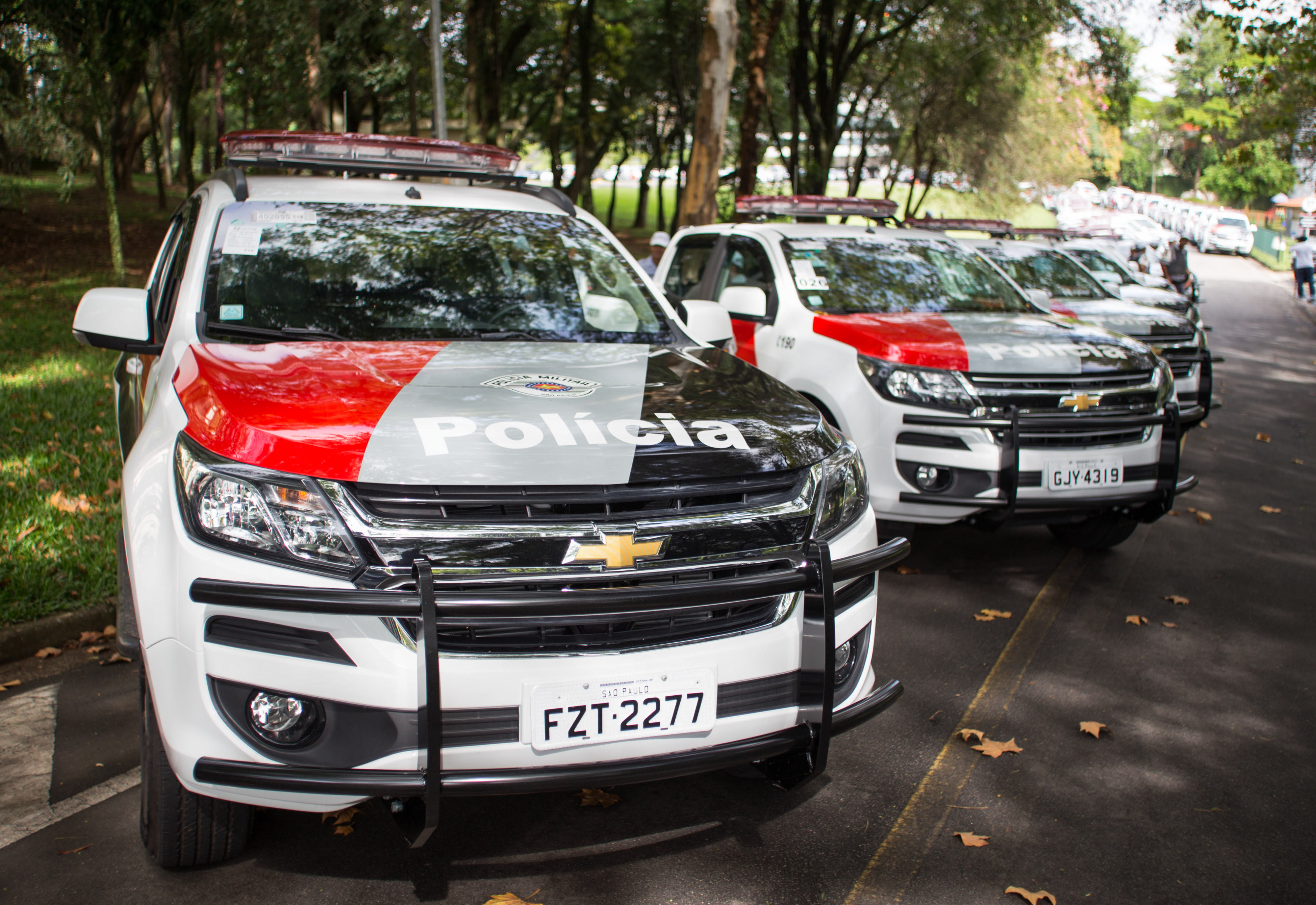 O Governador do Estado de São Paulo, Dr. Geraldo Alckmin entrega viaturas no Palácio dos Bandeirantes. Local: São Paulo/SP. Data: 16/01/2017.. Foto: Luís Blanco/A2img